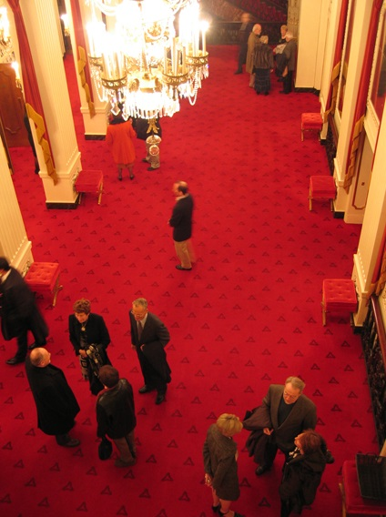 "ou est charlie?", a foto of interior of Heinz Hall, Pittsburgh, PA